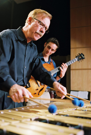 Vibraphonist Gary Burton and guitarist Julian Lage